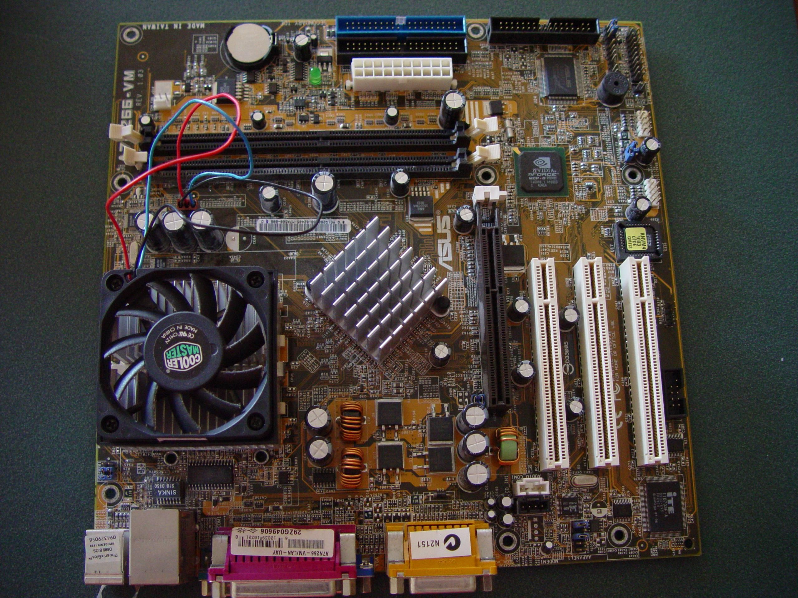 Image title: Atx motherboard pci agp sockets Image from Public domain images website